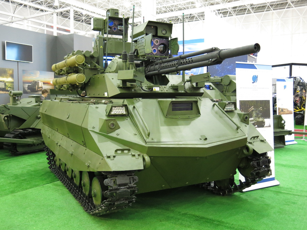 Uran-9 unmanned combat ground vehicle displayed at Army 2016